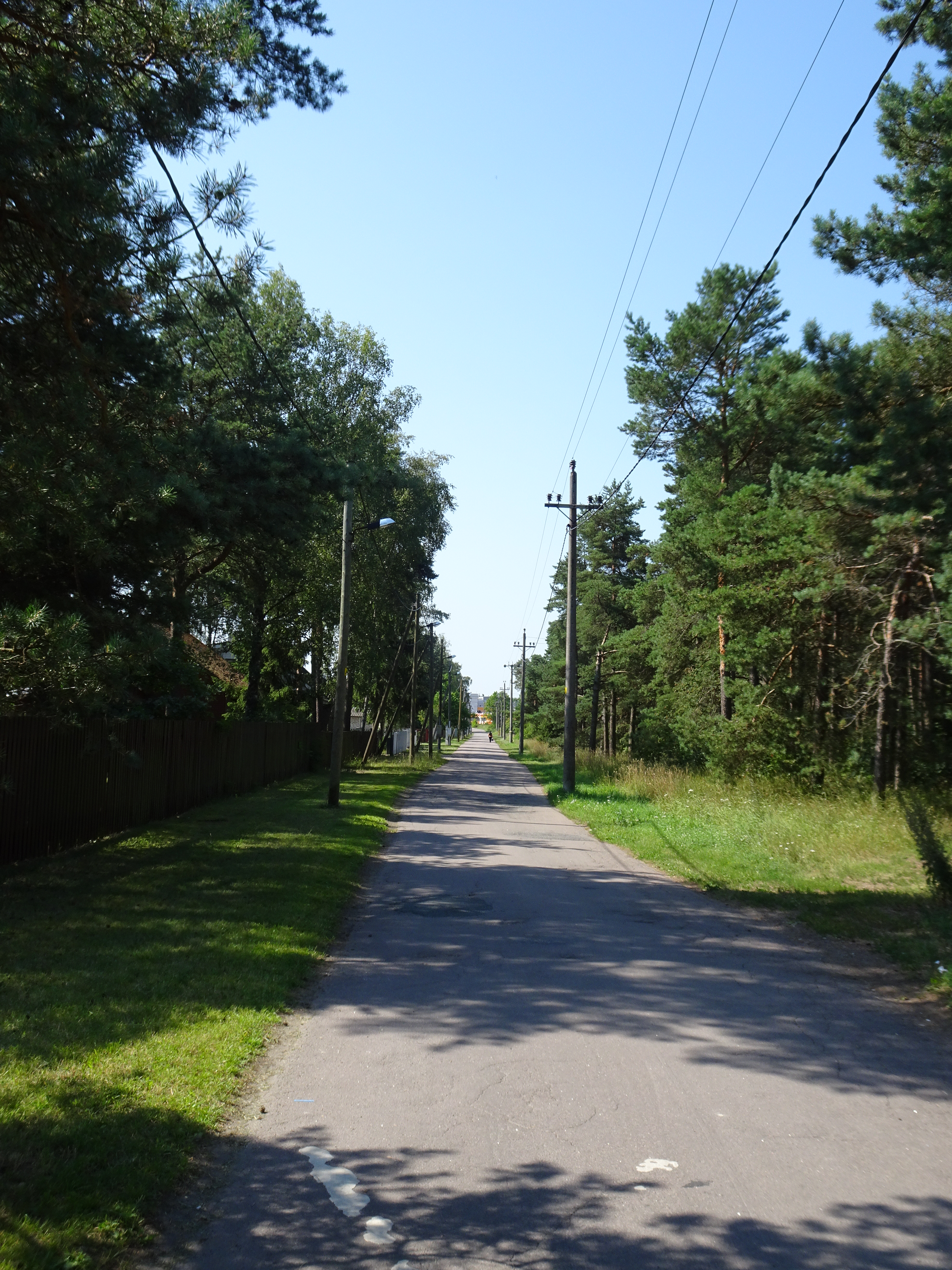 Liipri Street in Tallinn, Estonia